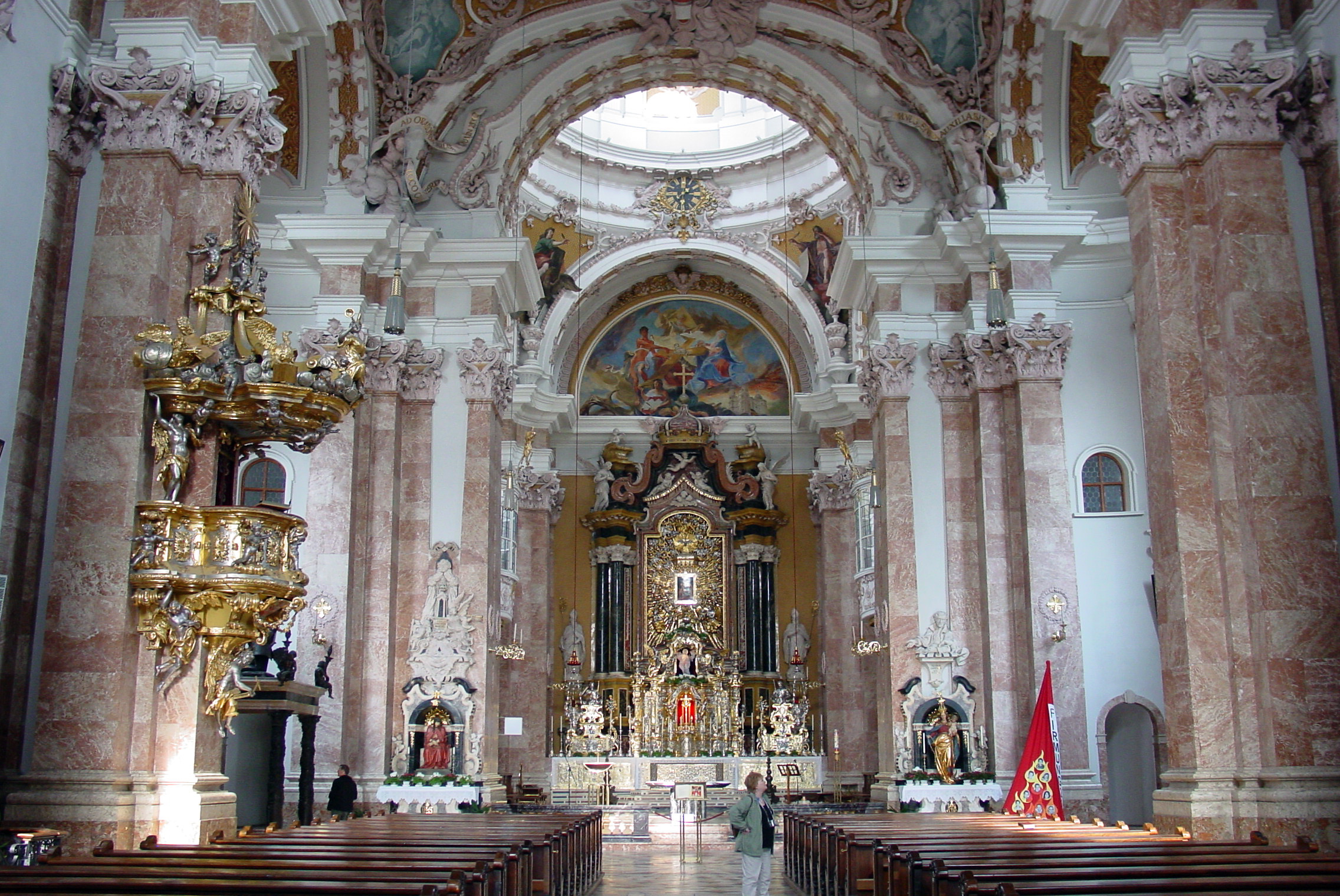 Cathedral of St. James in Innsbruck, Austria